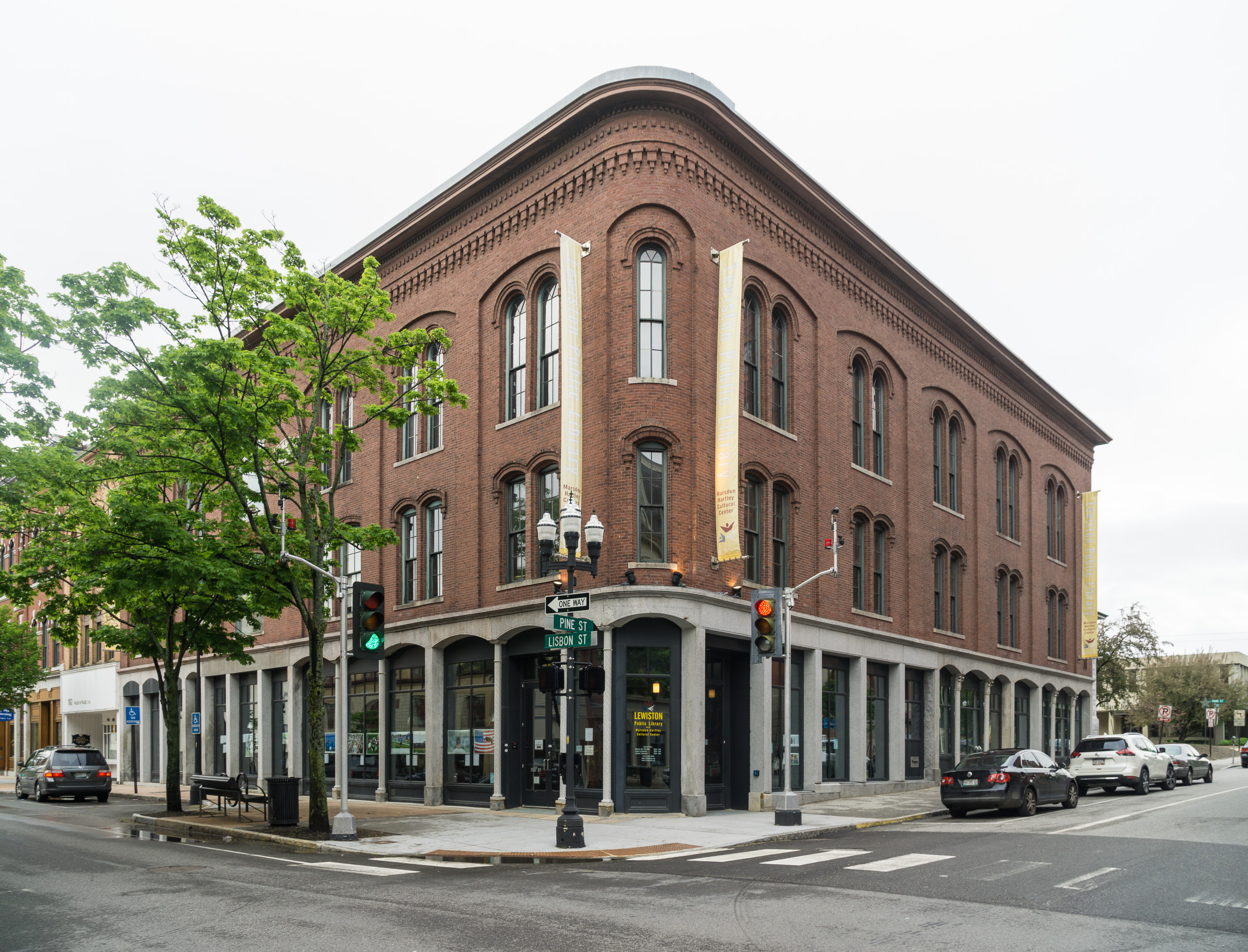 Lewiston Public Library, Pilsbury Block expansion on Lisbon Street. Lewiston, Maine.